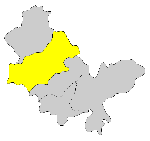 Location of Boluo County, Huizhou